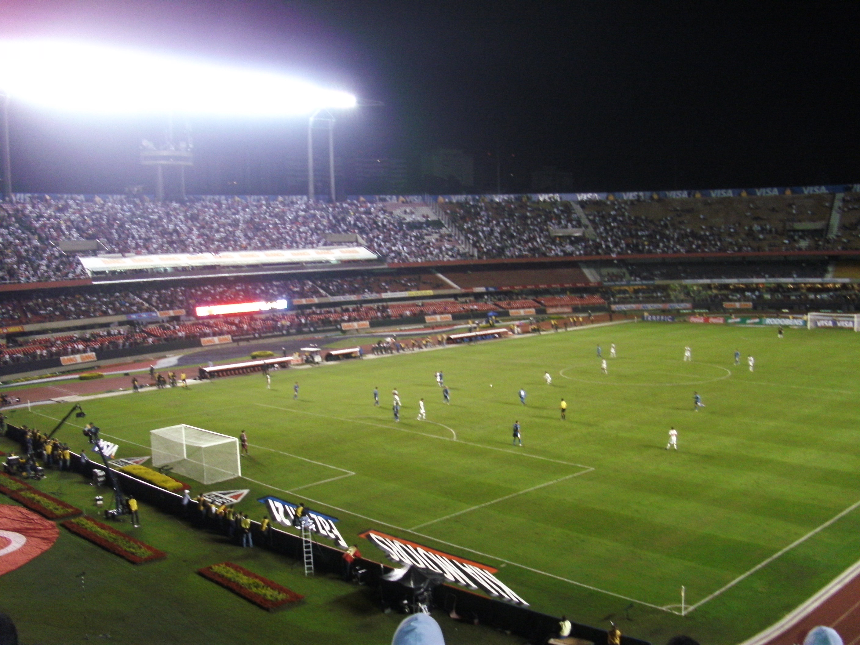 Estádio Cícero Pompeu de Toledo